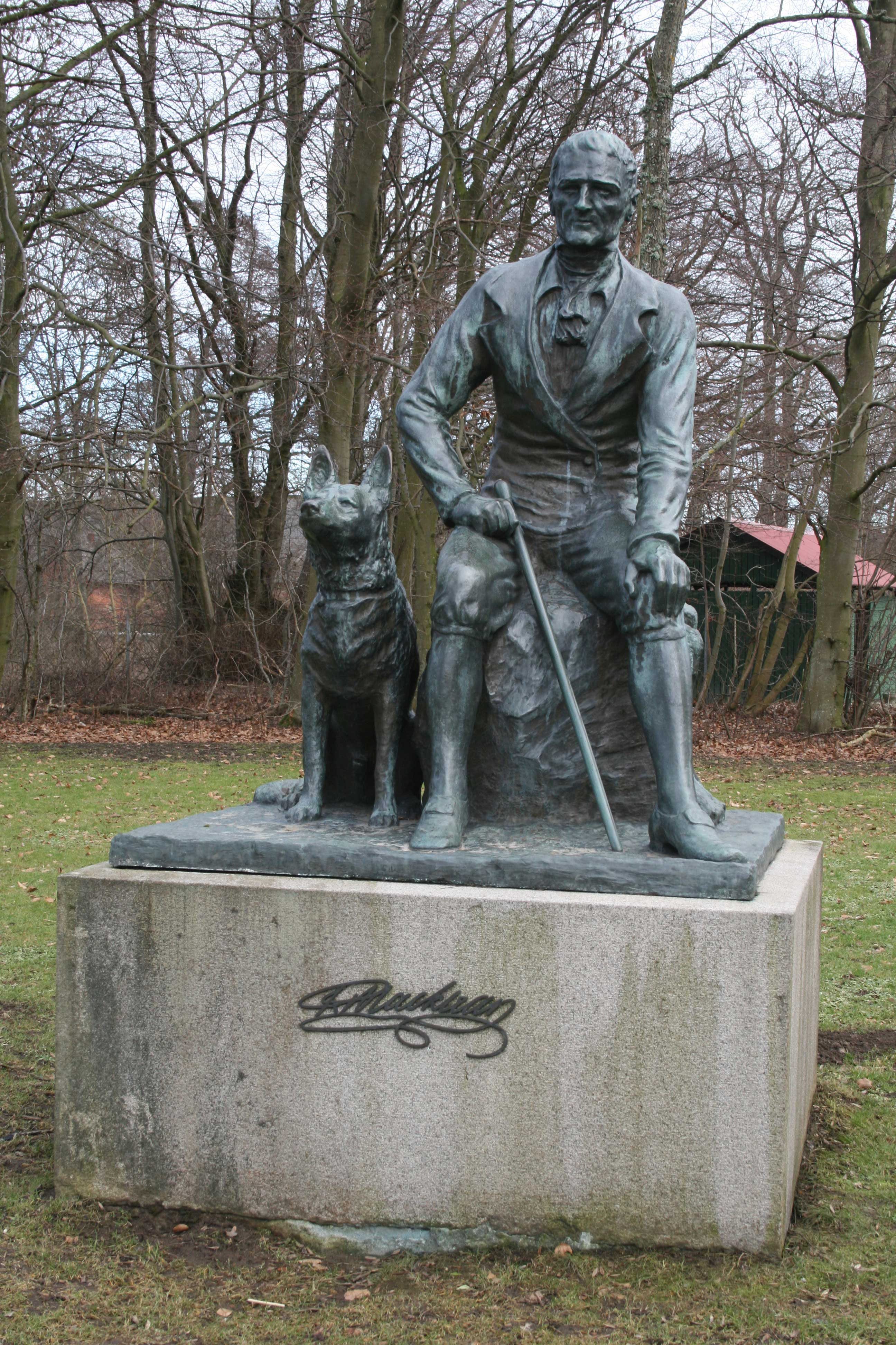 Statue of Rutger Maclean in the garden of Svaneholm Castle